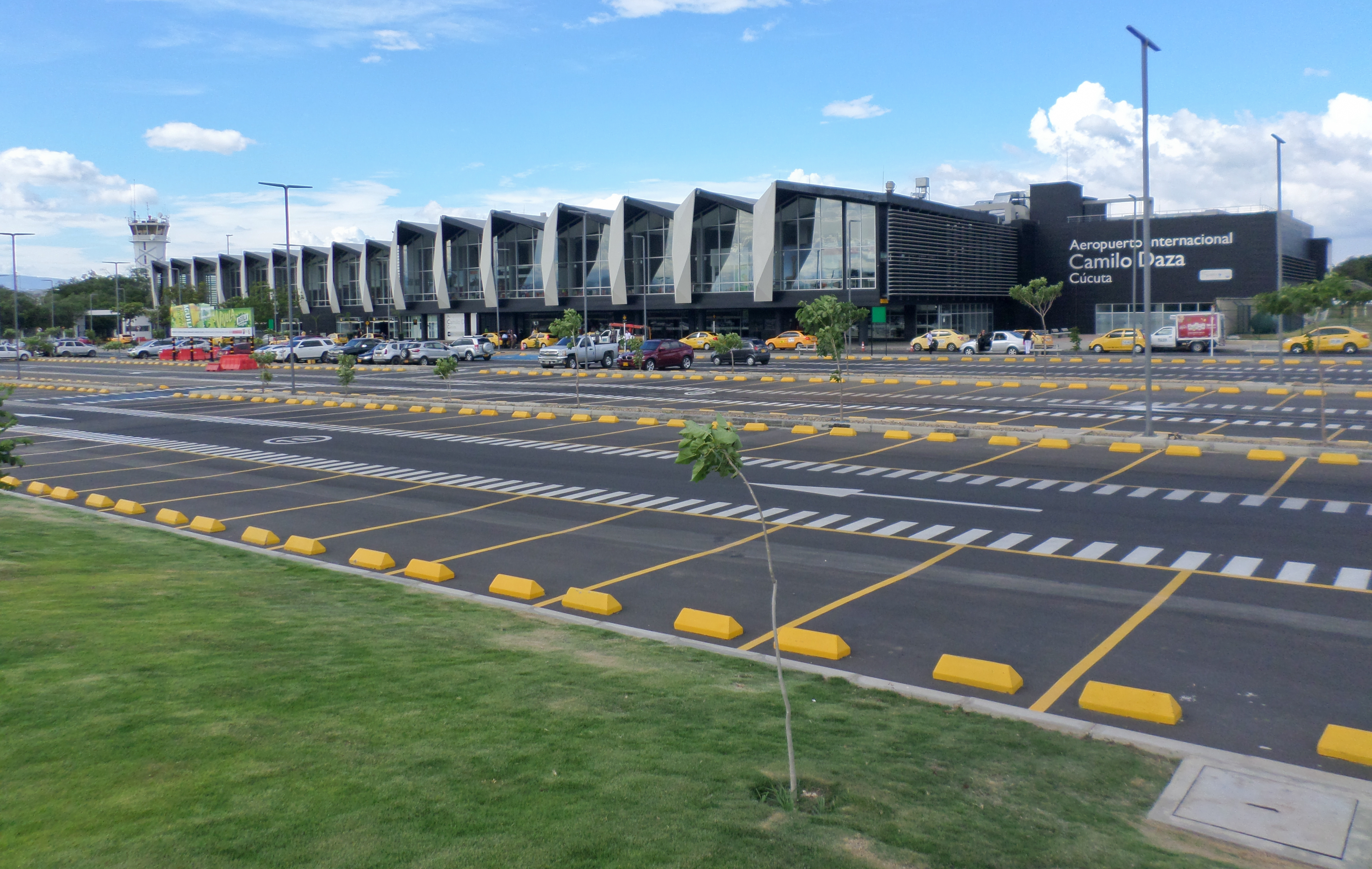 Camilo Daza International Airport